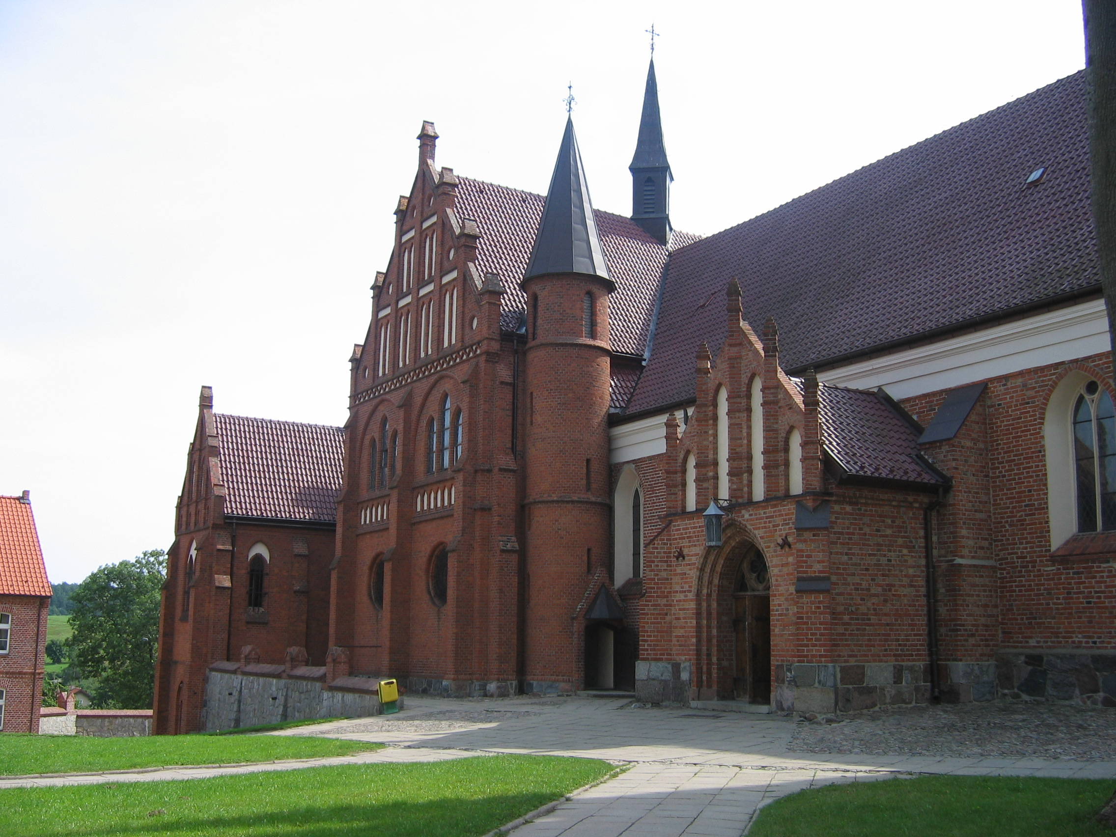 Church in Gietrzwałd, Poland